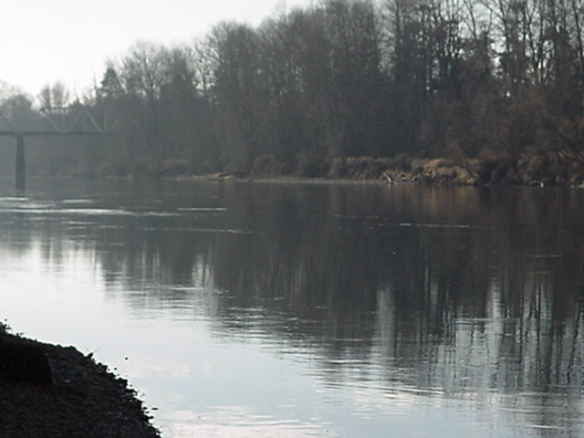 Valentine's Day in Albany, Ore., 2001.outlook hazy